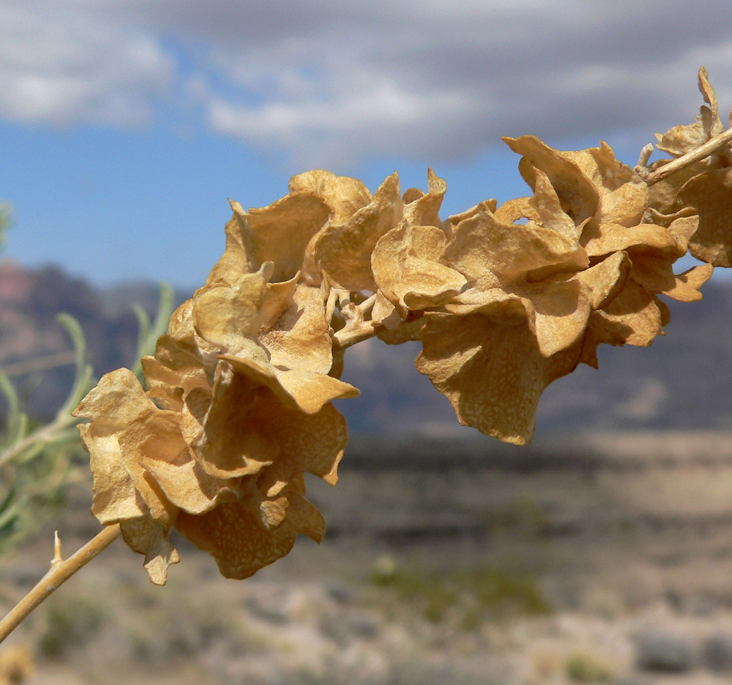 Atriplex canescens var. canescens on Blue Diamond Hill, Spring Mountains, southern Nevada